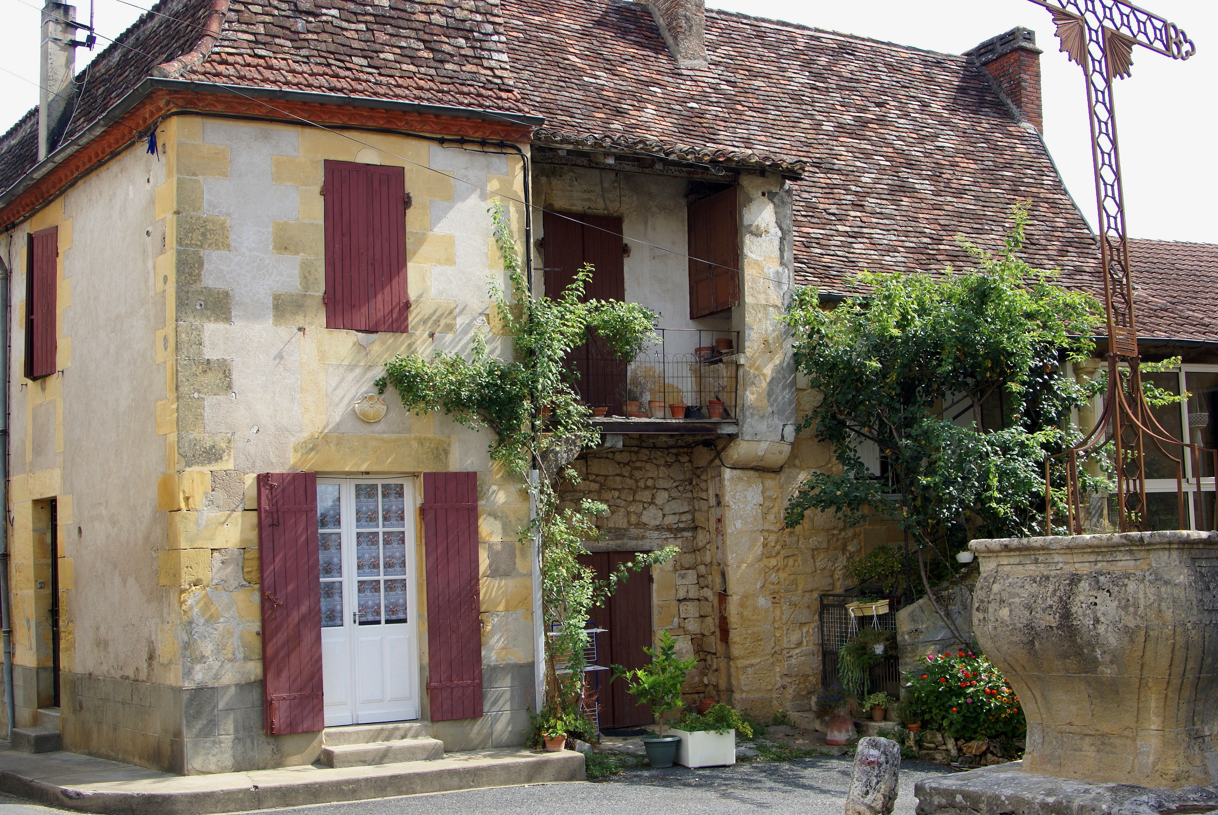 House next to the church of Lanquais, Dordogne, France